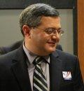 David usupashvili, Georgian politician